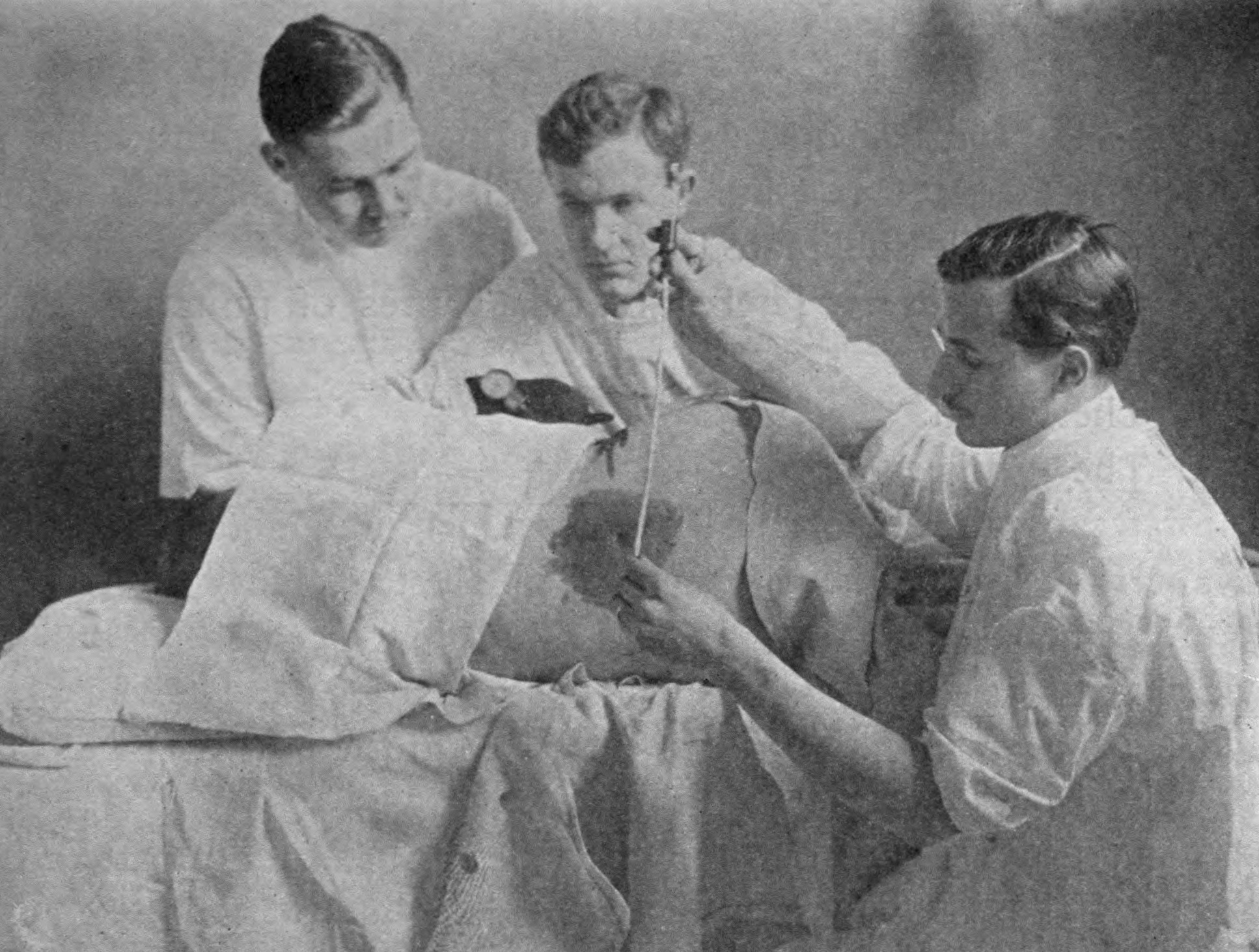 Original caption: “This picture illustrates the operation of lumbar puncture and the technique in injecting the antimeningitis serum. The patient is lying on his left side over the right side of the bed. His back is bowed by the physician in the middle of the photograph by flexing the hips on his abdomen and bending his head forward. The skin at the site of the operation has been painted with tincture of iodine. The site of the operation is draped off with sterile towels. The needle has been inserted at the level of the crest of the ileum, which is marked with tincture of iodine. The assistant at the head of the patient is taking blood pressure observations. The serum s being injected by gravity.”